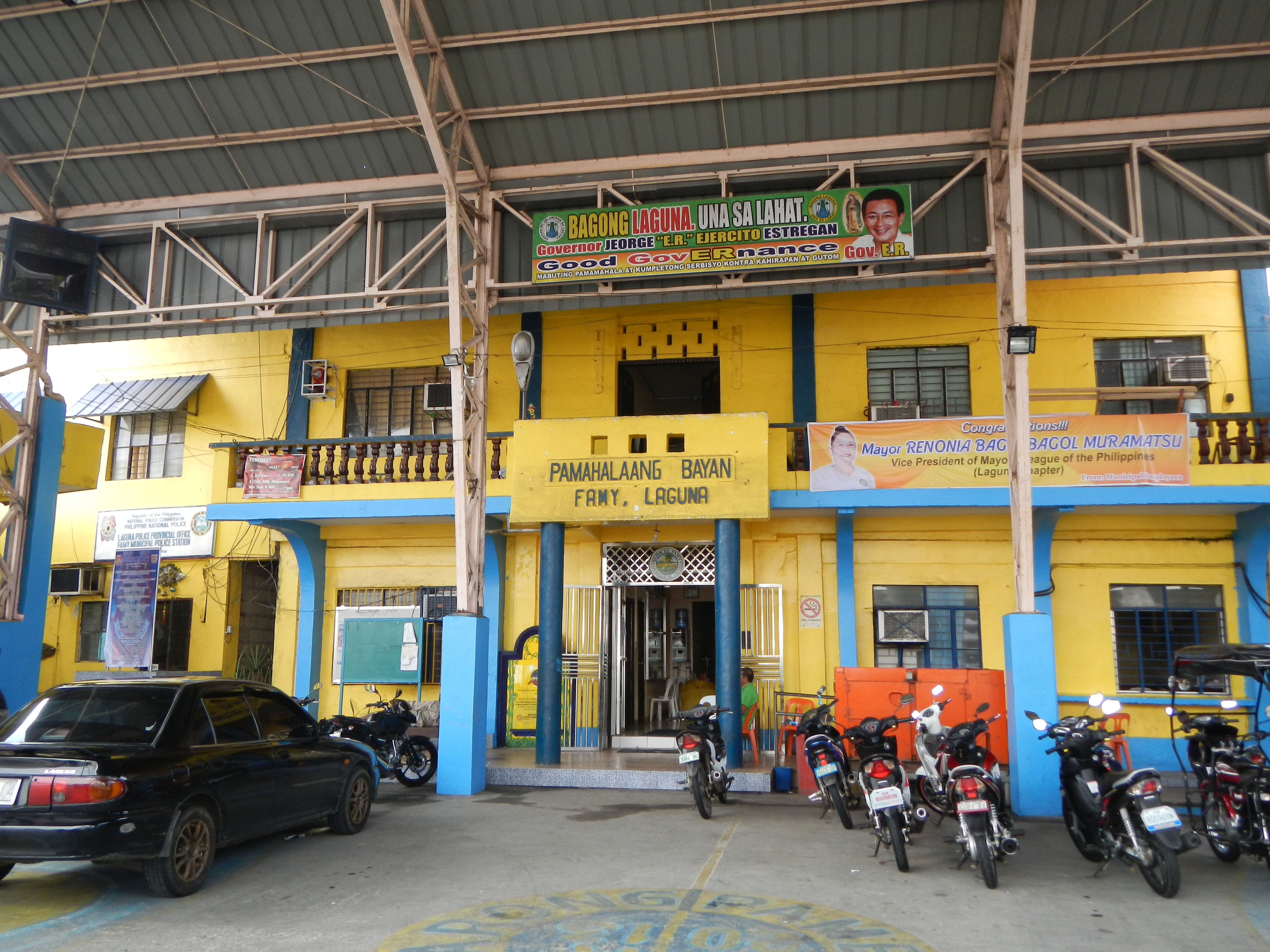 UploadWizard photos -- (General description, 3-dimension angle by angle photography of this town, church & landmarks) -- of the -- the Town hall ("Pamahalaang Bayan") of Famy, Laguna, Sangguniang Bayan, Municipal Offices, beneath and adjoining the Covered Court, Plaza and Rizal Monument, Garden, Barangays Magdalo & Bagong Pag-asa --- Famy, Laguna [1], (Famy is politically subdivided into 20 barangays, a fifth class municipality in the province of Laguna, Philippines, latest census, has a population of 15,021, lies in the northeastern part of the province of Laguna[2], has a total land area of 3.297 square miles (8.54 km2).